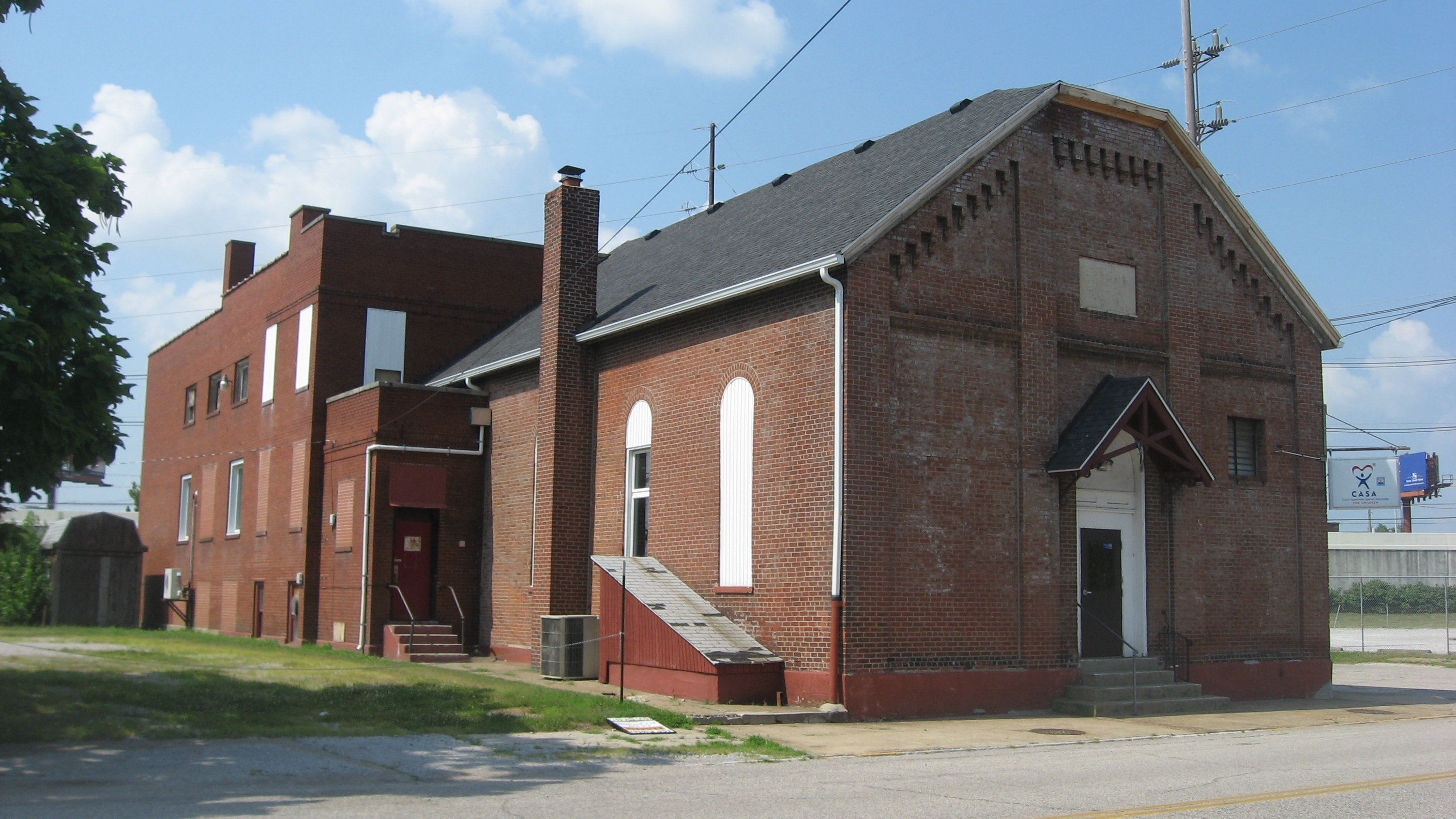 Front and southwestern side of Salem's Baptist Church, located at 728 Court Street in Evansville, Indiana, United States. Built in 1873, it is listed on the National Register of Historic Places.